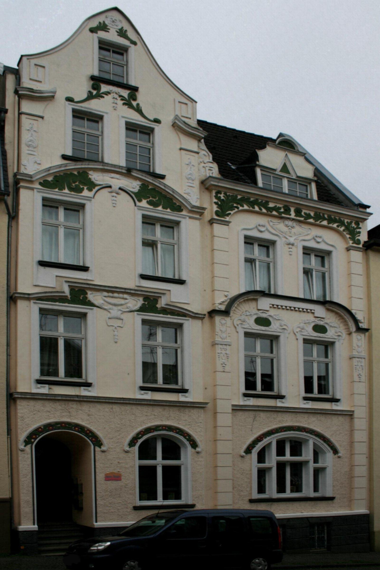 Cultural heritage monument No. B 001 in Mönchengladbach